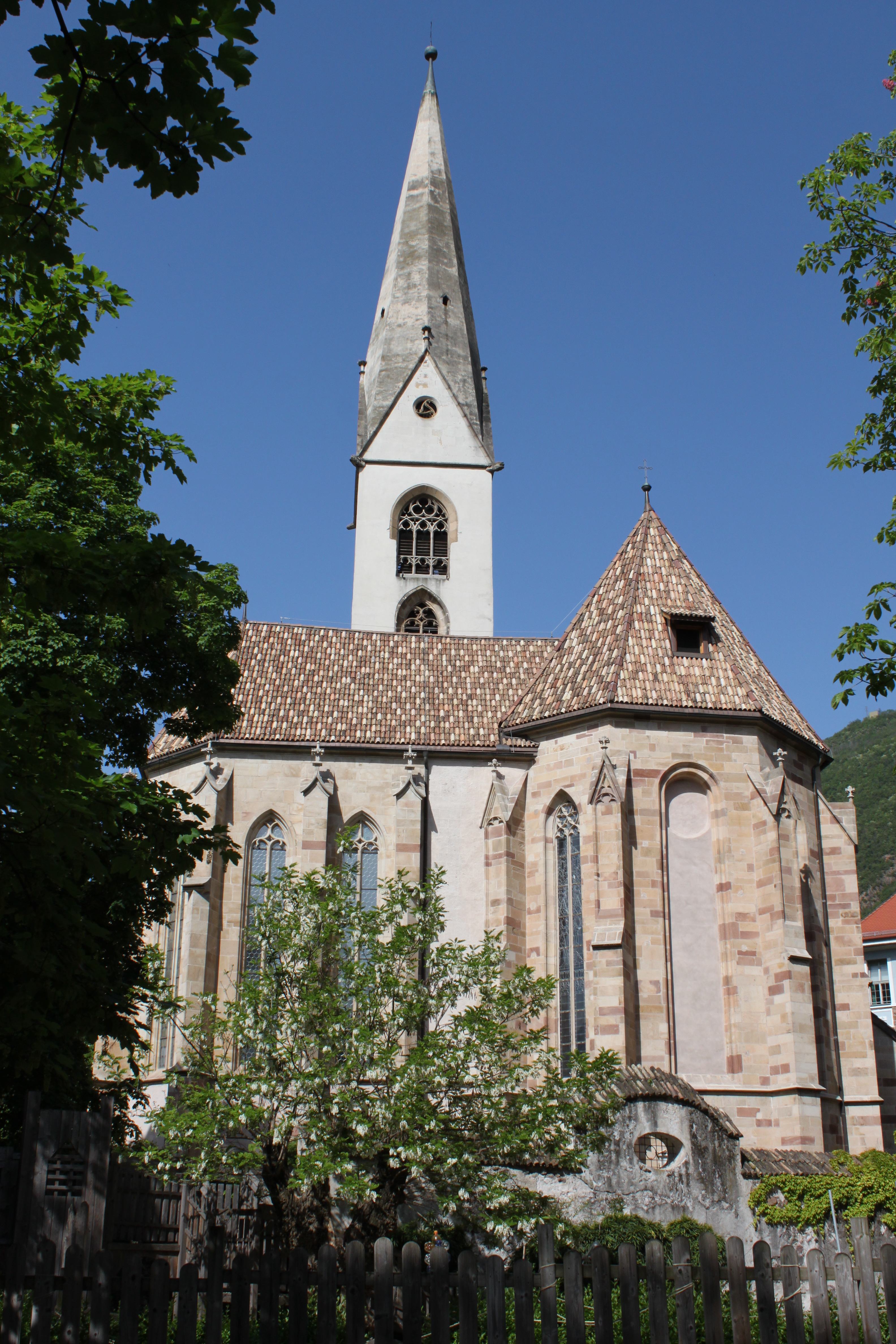 Old Parish Church in Gries Bozen Bolzano (est view)